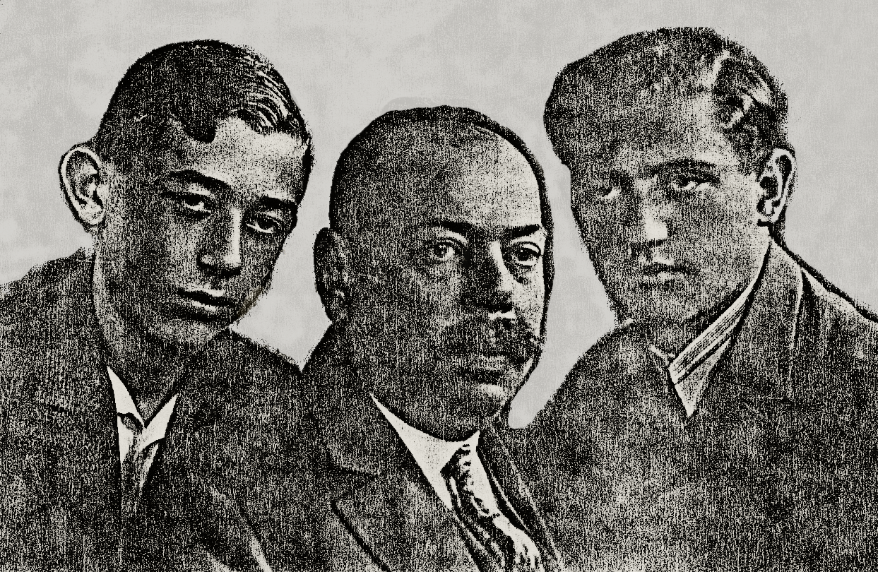 Warsaw publisher Mordechai Kaplan with his two sons